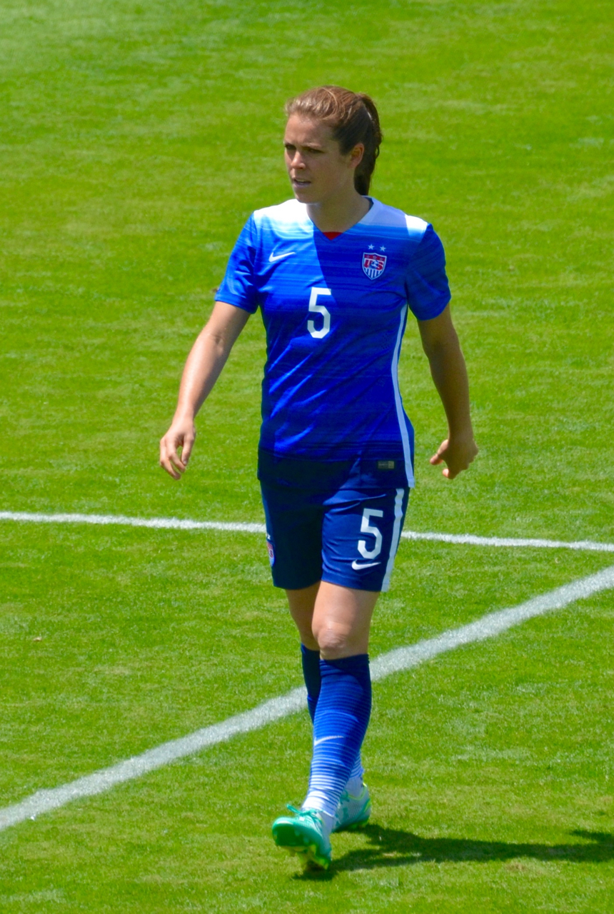 Kelly O'Hara playing for the US Women's National Team in San Jose, California on 10 May 2015.